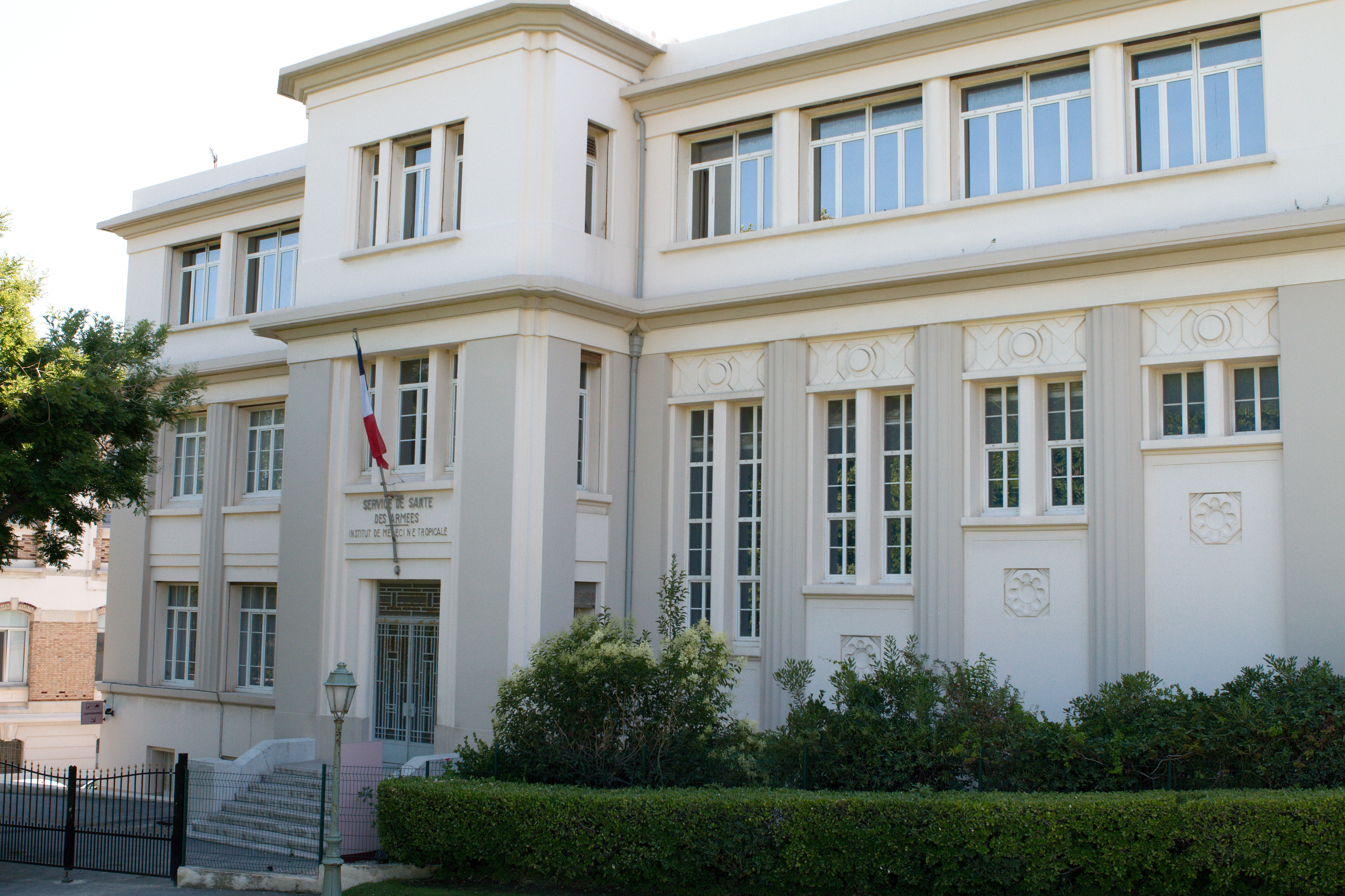 The Institute of Tropical Medicine of the military health service in Marseille, Bouches-du-Rhône (France).